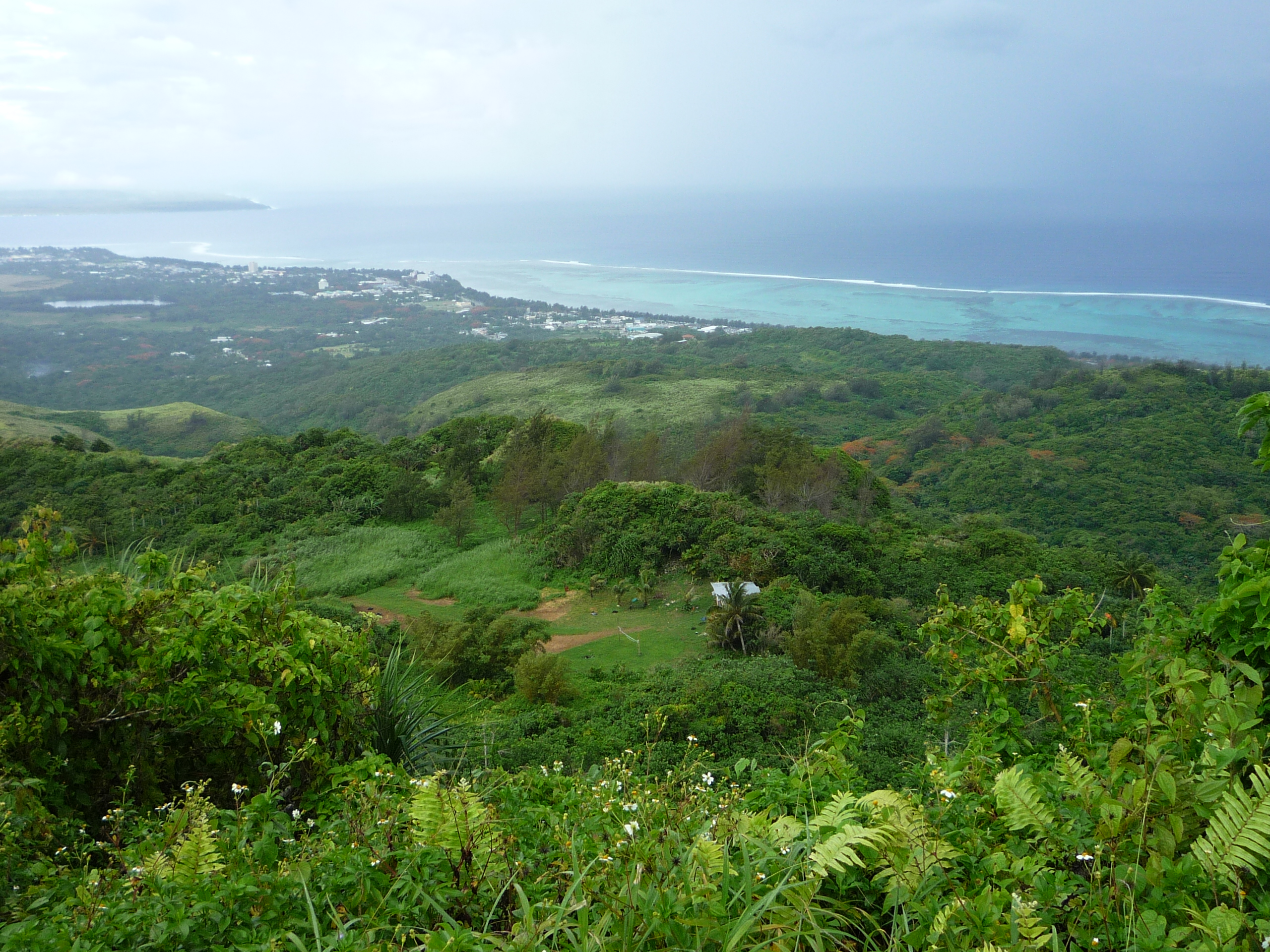 View of Landing Beach and soutwest coast areas of Saipan from the summit of Mt Tapochau.